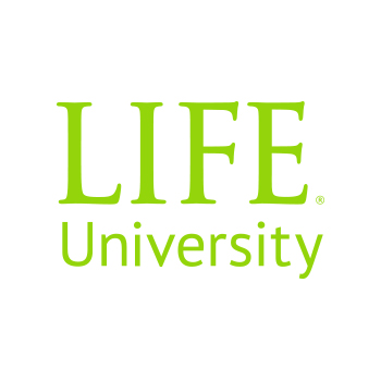 Life University Official Logo